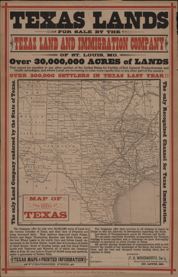 Advertisement depicting Texas lands for sale between 1900-1920